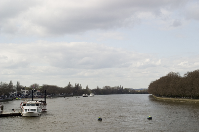 The section of the Thames Tideway looking upstream from the stake boats used as the starting points of the Oxford and Cambridge Boat Race. The reserve crews Isis and Goldie have rowed out of view and the Blue boats have not yet taken up their positions at the stake boats.